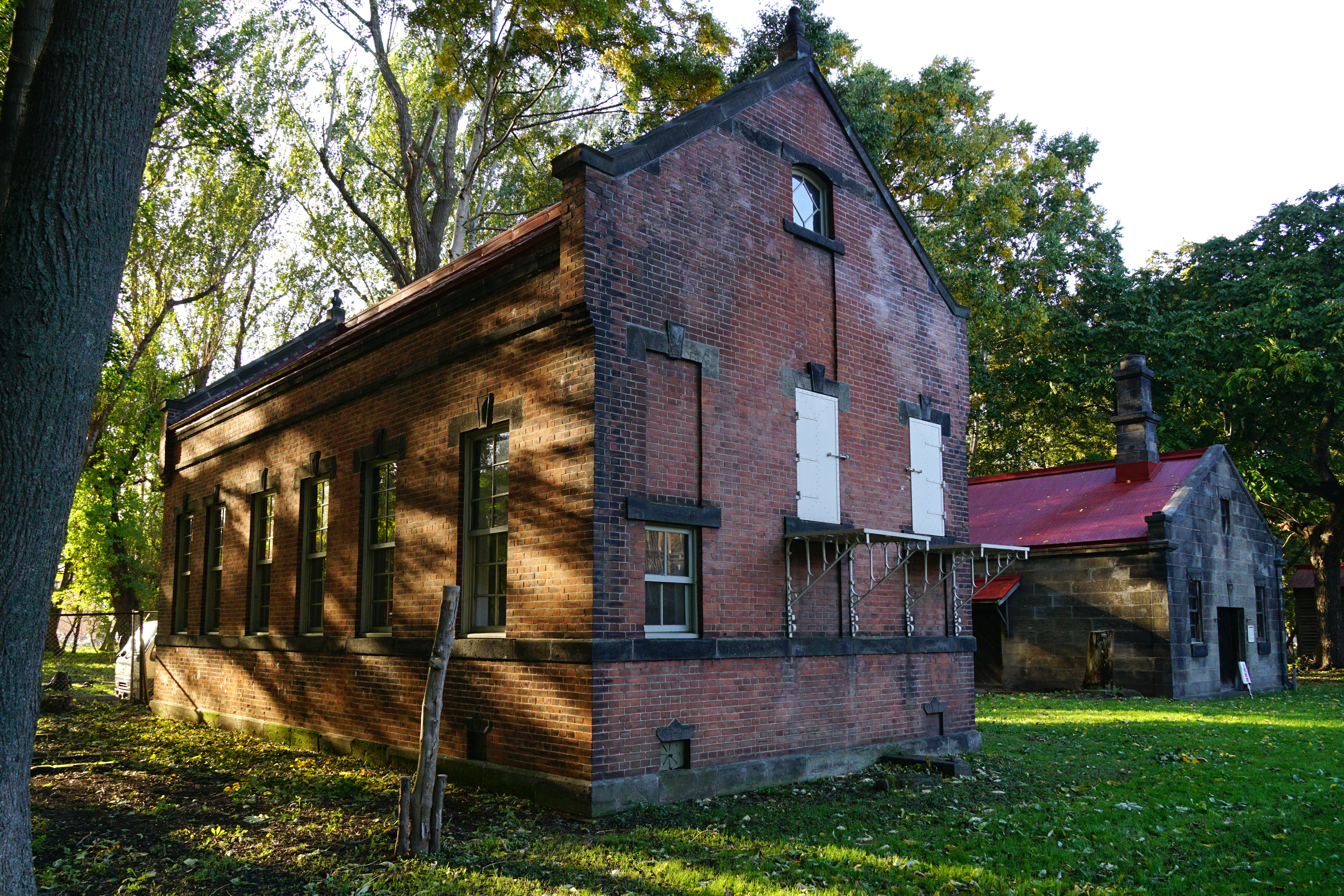 Sapporo Agricultural College 2nd farm at Hokkaido University in Sapporo Hokkaido prefecture, Japan.